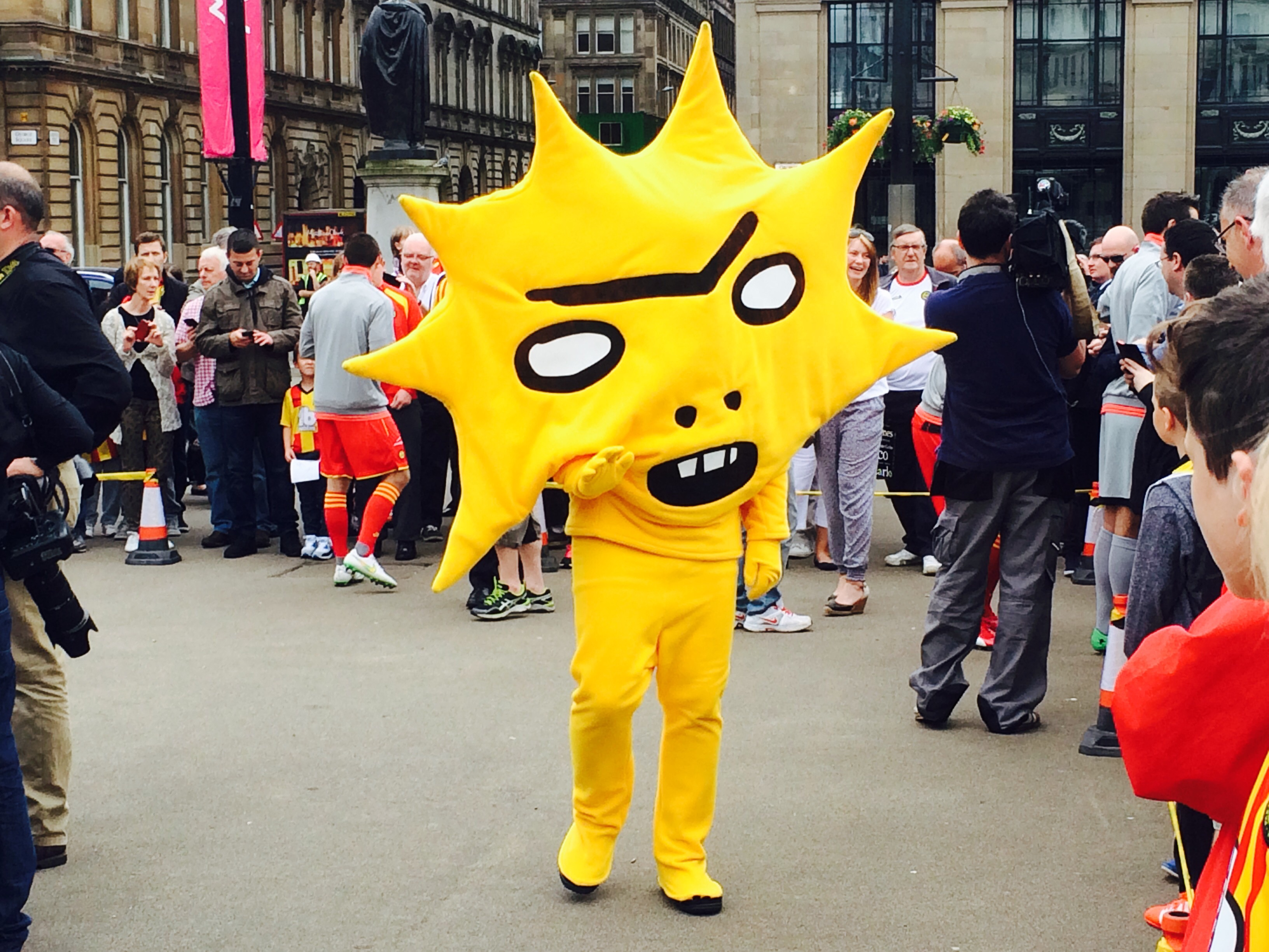 Partick Thistle's mascot Kingsley, taken in George Square, Glasgow